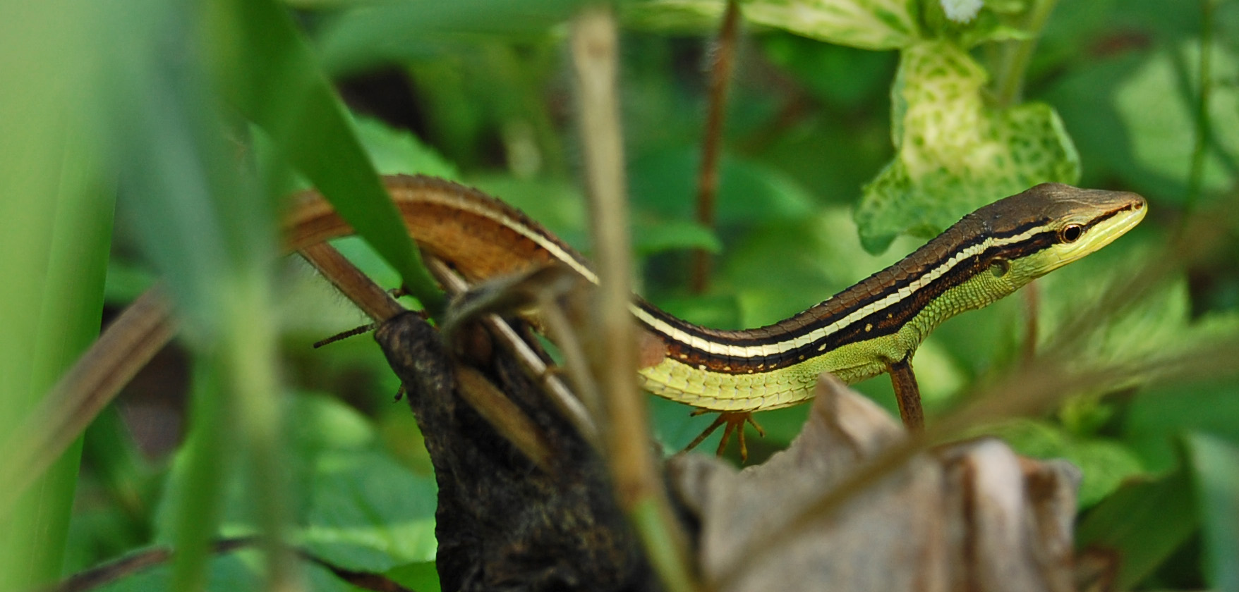 Takydromus sexlineatus, male, from Darmaga, Bogor, West Java, Indonesia